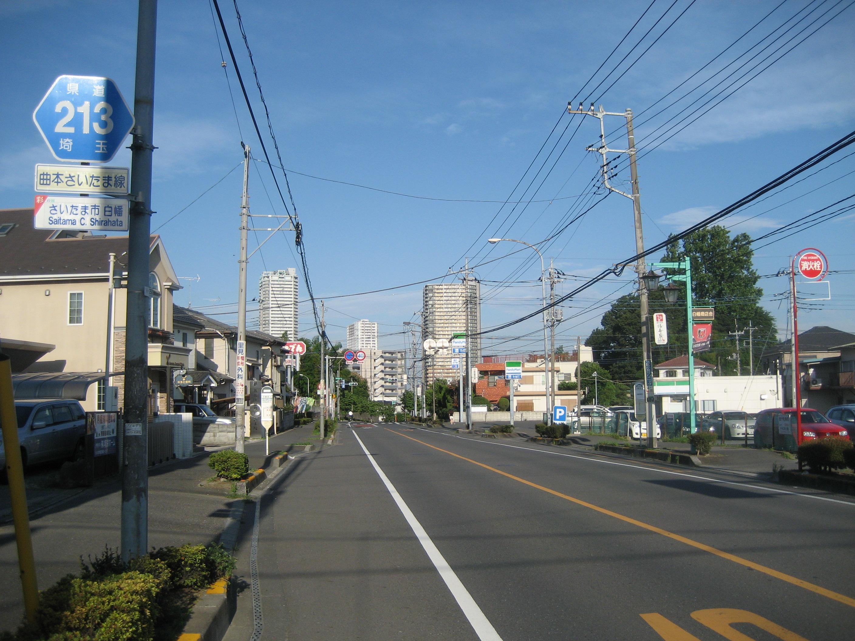 The Saitama Prefectural Road Route 213 in Shirahata, Minami-ku, Saitama City